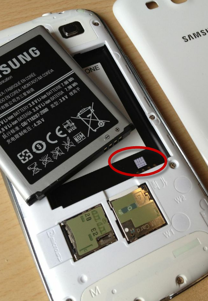 In this picture you see a white square sticker near the battery contacts in a Samsung Galaxy SIII smartphone. This is the LCI or Liquid Contact Indicator. It colors red, or pink after contact with water.